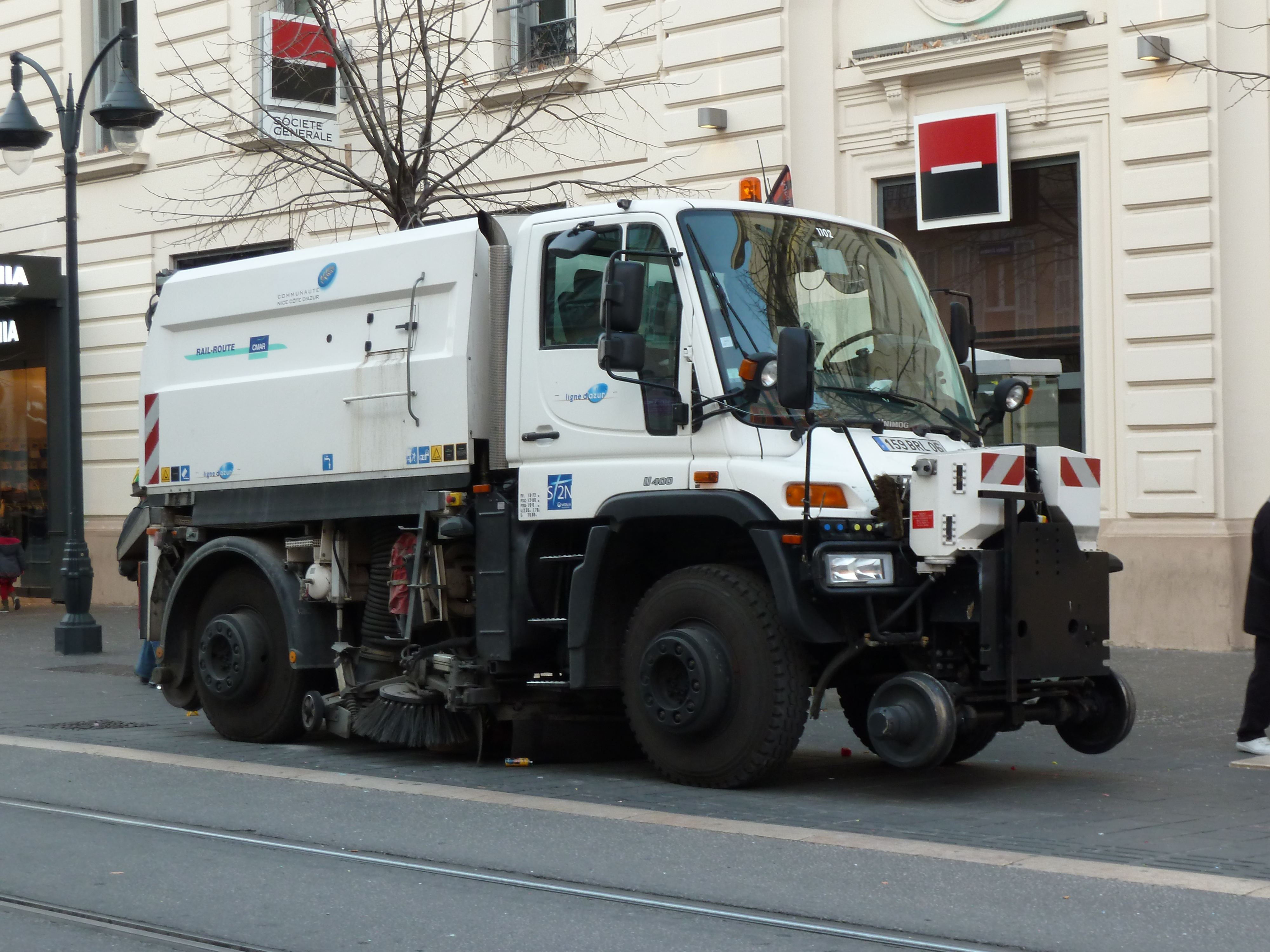 Road-rail vehicle of Lignes d'Azur